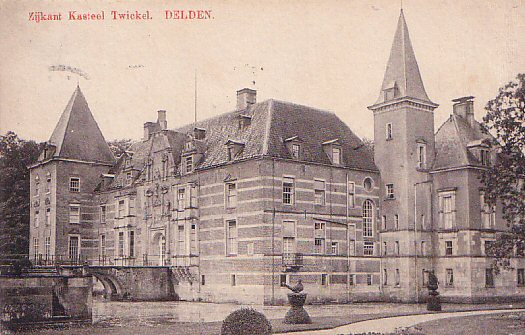 Havezathe Twickel